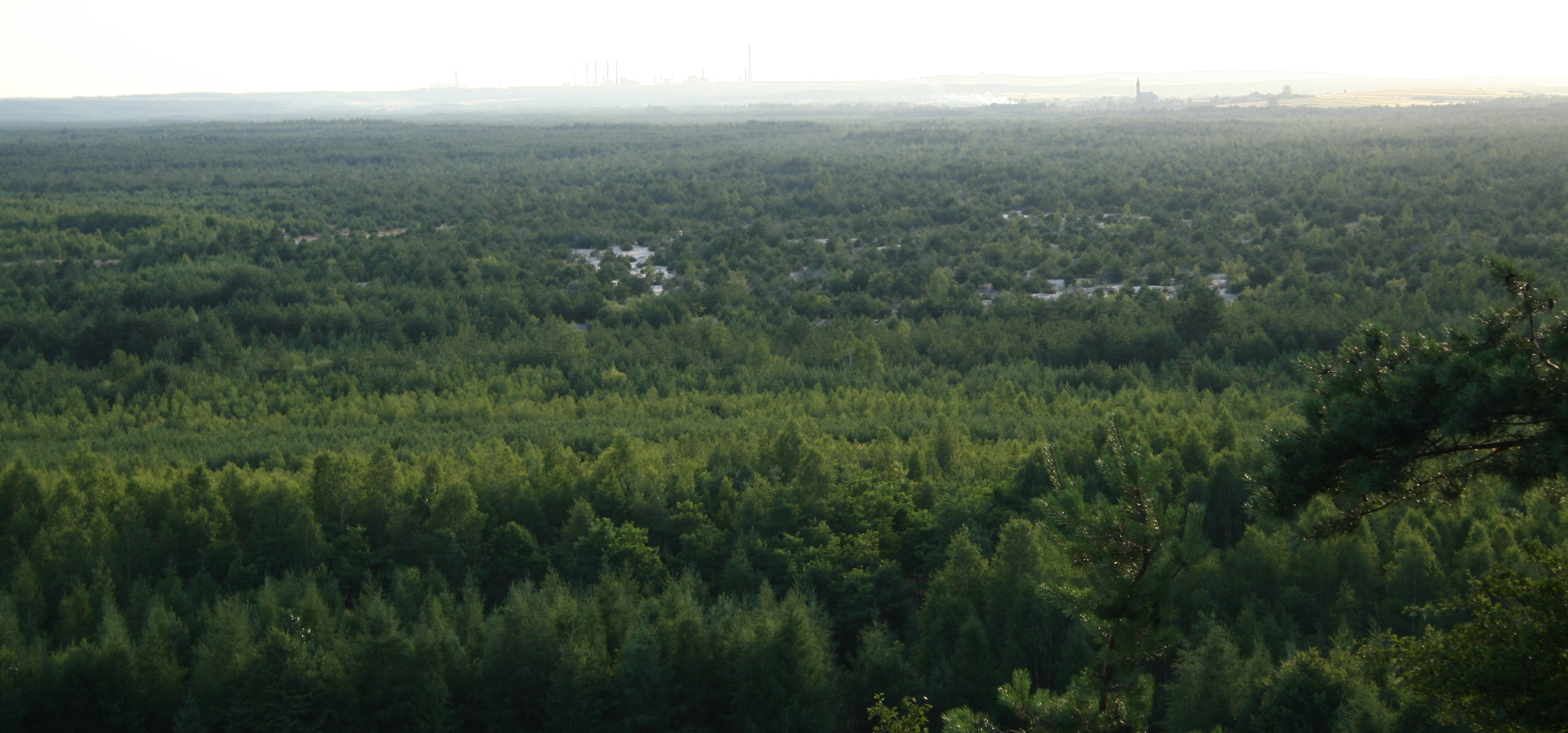 The southern stretch of the Błędów Desert seen from the Czubatka hill near Klucze. As can be seen, the Desert is now largely overgrown by forest of pine and caucasian willow, introduced here in the 50s (the northern part, invisible here, is still an open sandy terrain). In the haze and smoke of the background, the outline of the Katowice Steelworks (Huta Katowice) in Dąbrowa Górnicza is visible.